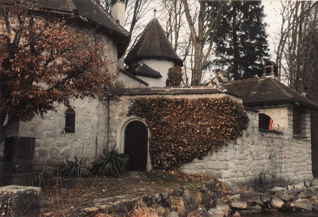 Visited here some years ago in the Spring. I found a seed just germinating, having fallen from the Beech tree on the left. Smuggling it back to the UK in a my wallet and planting it in a pot back home it has grown into a small bonsai Beech tree.